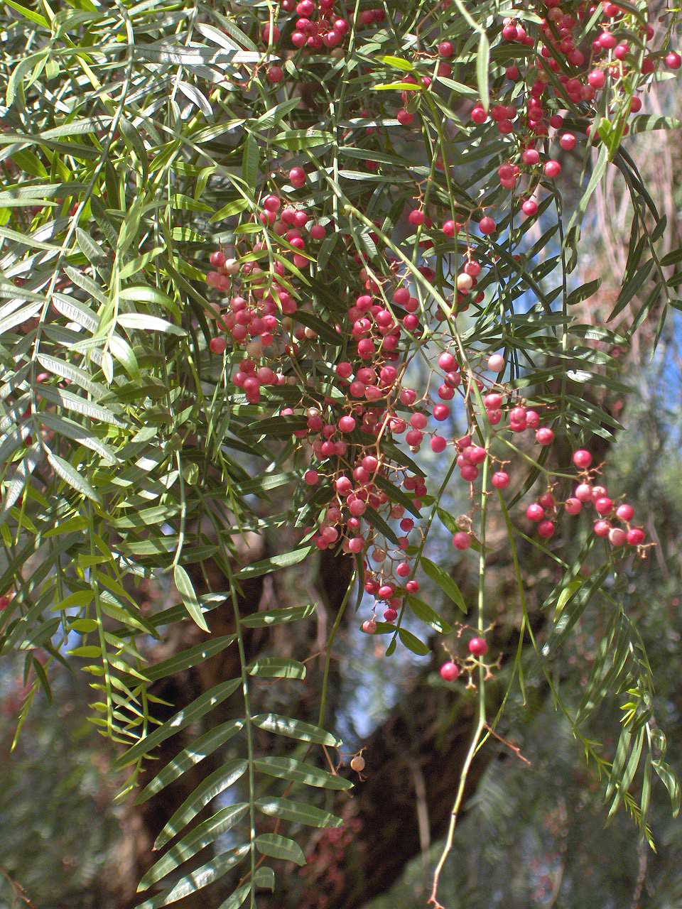 Peruvian Peppertree Schinus molle